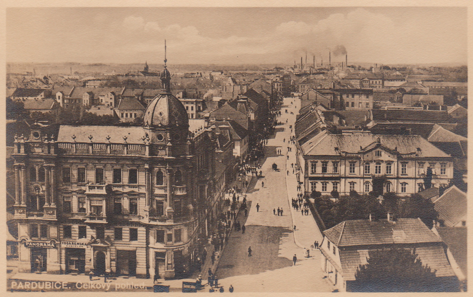 Pardubice. General view. (View from Zelená brána facing west.) Česky: Pardubice. Celkový pohled. (Pohled ze Zelené brány k západu, dnešní Třída Míru)